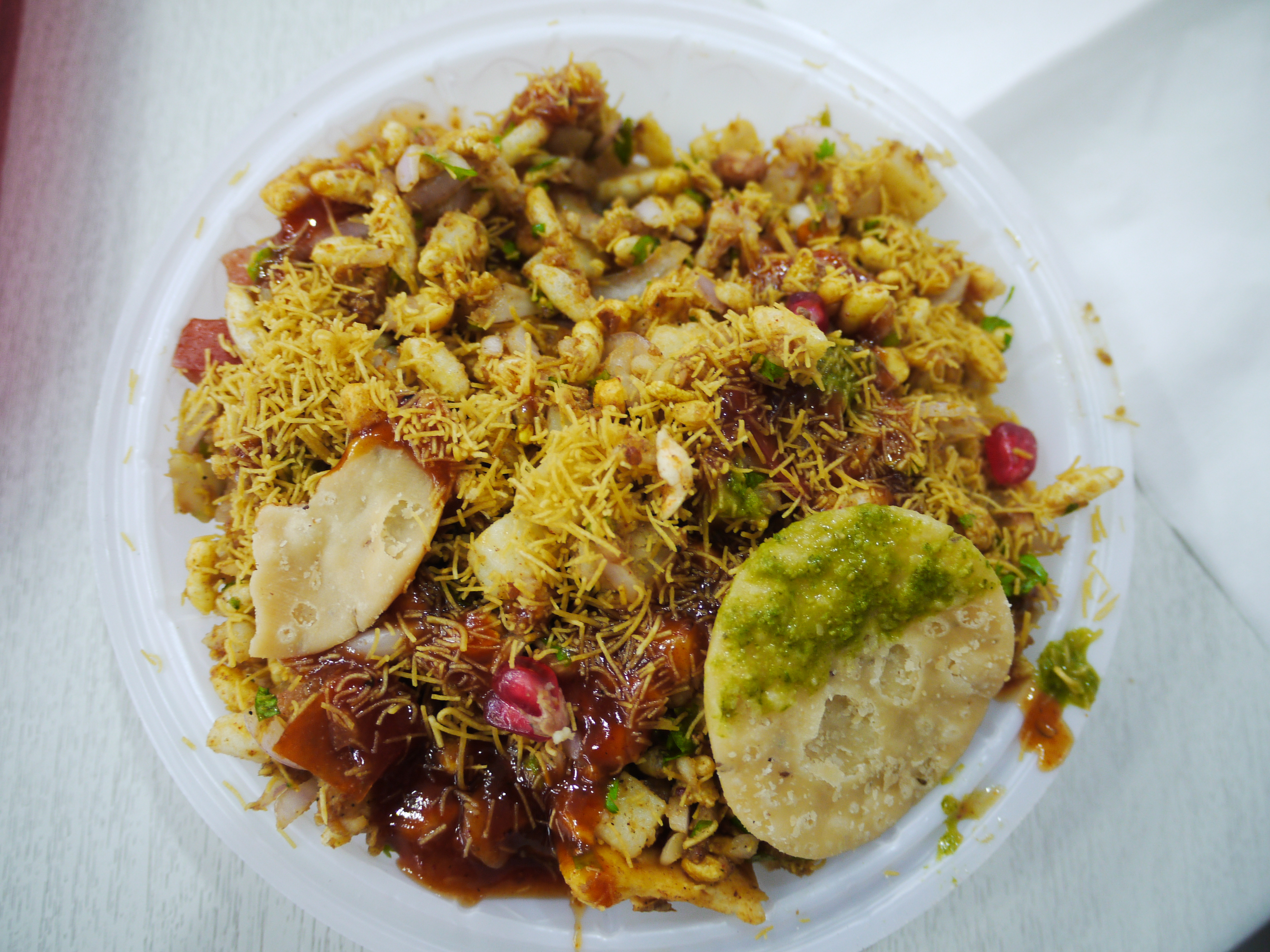 This is indescribable and awesome. 2011 in India